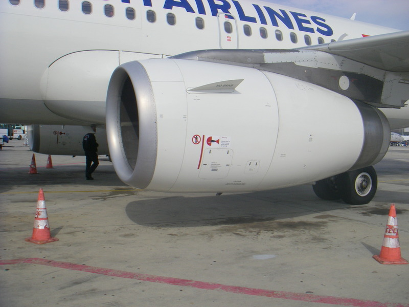 Large engine of an airbus of Turkish airlines